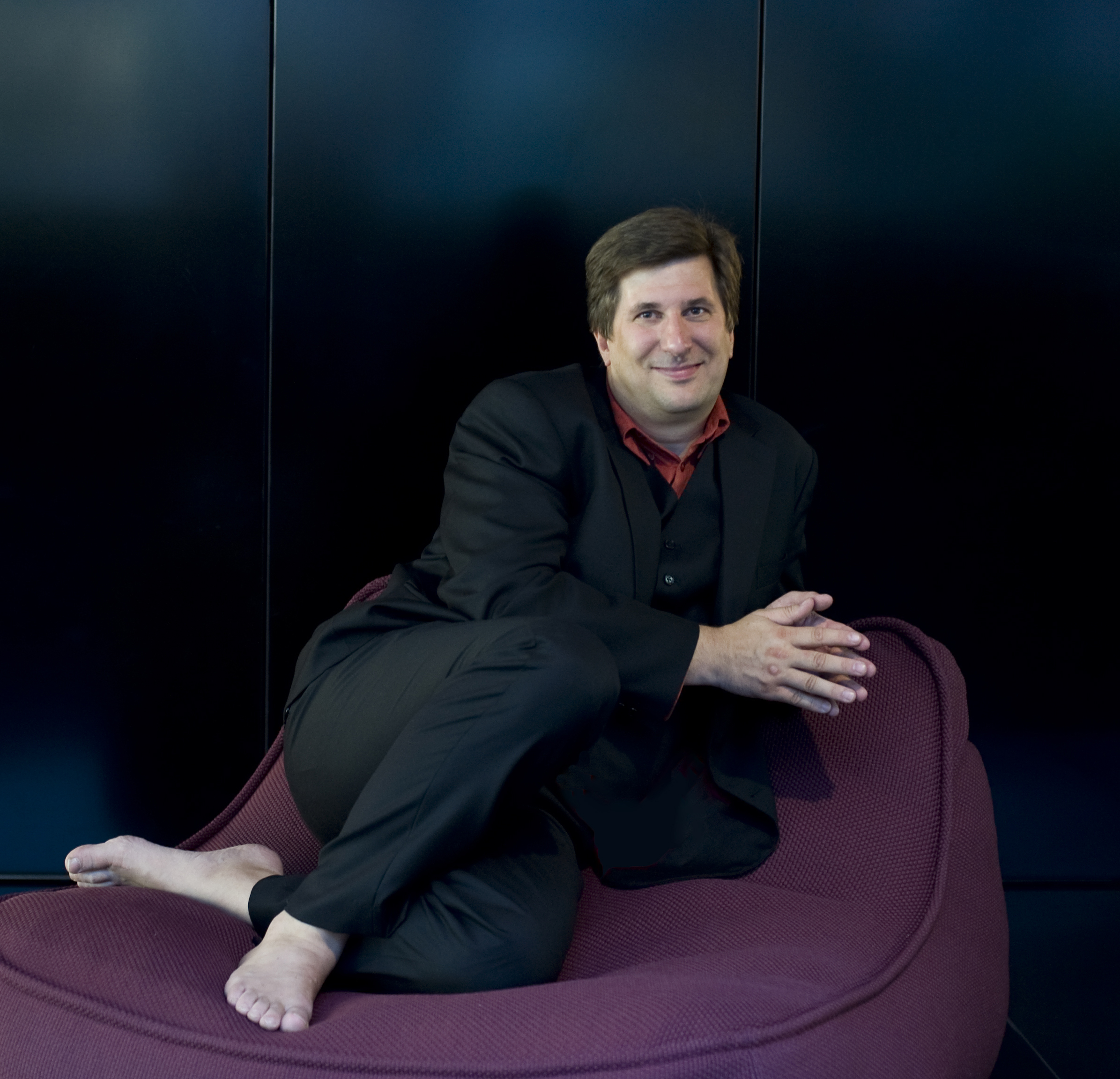 Portrait of Michael Publig © Nancy Horowitz